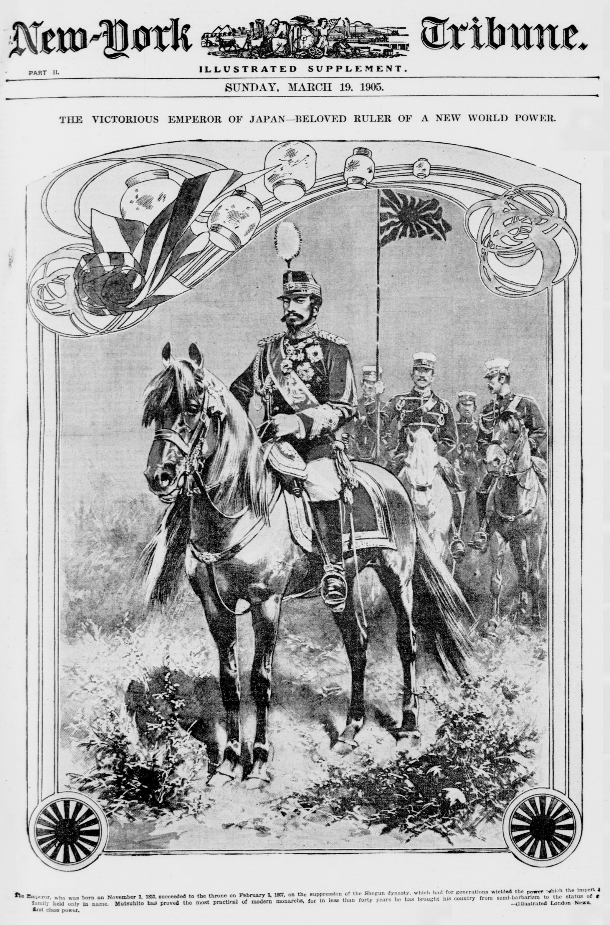 New-York tribune. (New York [N.Y.]) 1866-1924 March 19, 1905, Image 15 Notes: Cover, illustrated supplement. Title: "The victorious Emperor of Japan - beloved ruler of a new world power." Text: The cover has this description: "The Emperor, who was born on November 3, 1852, succeeded to the throne on February 3, 1867, on the suppression of the Shogun dynasty, which had for generations wielded the power which the imperial family held only in name. Mutsuhito has proved the most practical of modern monarchs, for in less than forty years he has brought his country from semi-barbarism to the status of a first class power." Format: Newspaper page, from microfilm Rights Info: No known restrictions on reproduction. Repository: Library of Congress, Serial and Government Publications Division, Washington, D.C. 20540 USA. Part Of: Chronicling America (Library of Congress) (DLC) - Persistent URL: More information about the Chronicling America Web site is available at